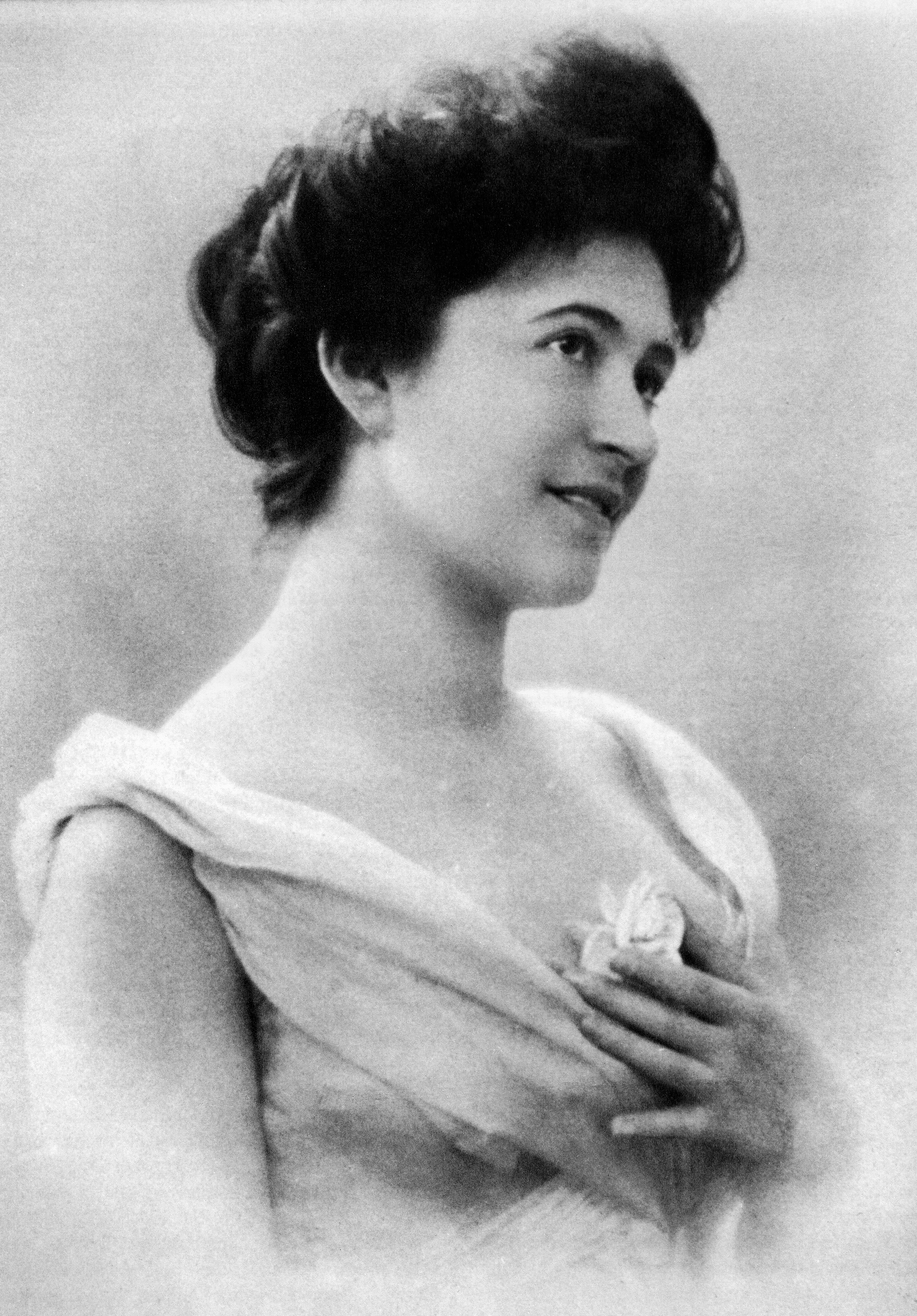 Selma Kurz (1874–1933), Austrian vocalist, photograph of Baron Nathaniel Rothschild, Vienna, about 1900